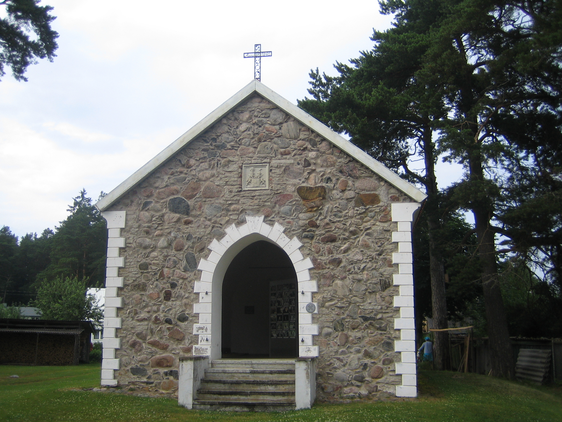 Käsmu chapel